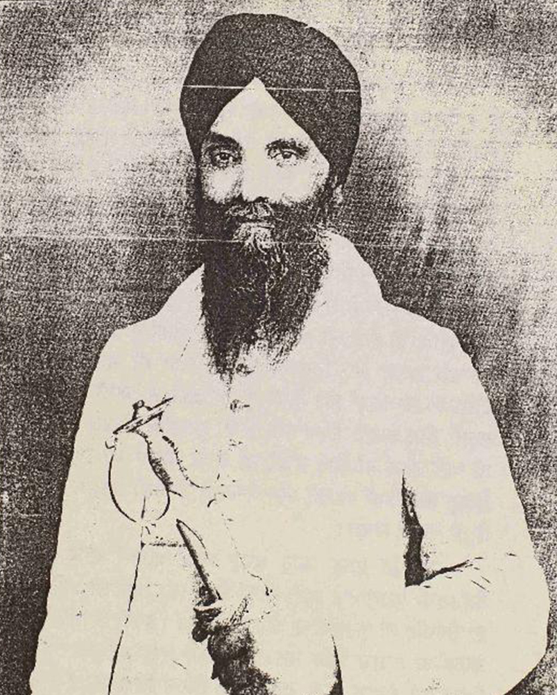 Preceding Jathedar of Akal Takht